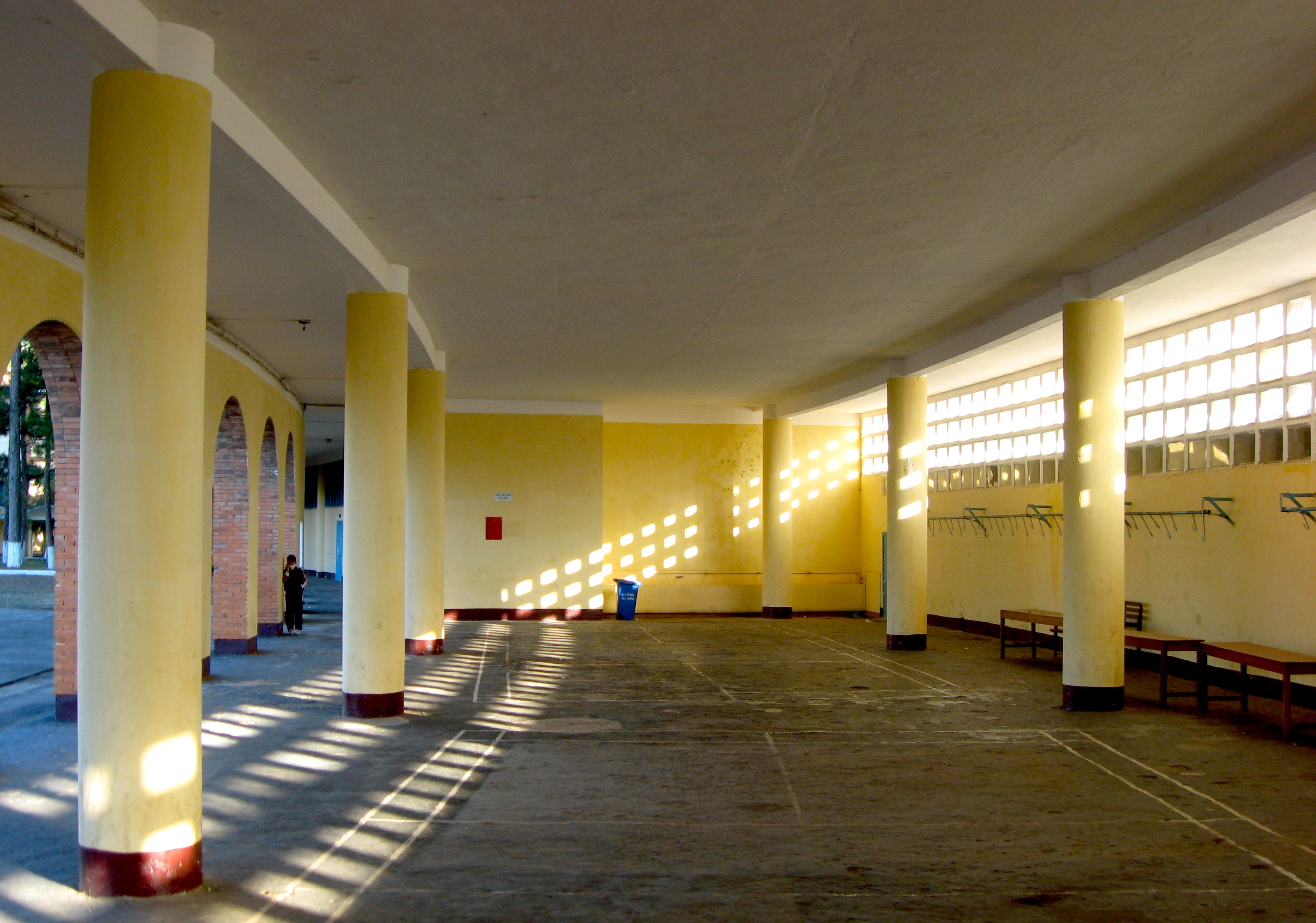 Pedagogical College of Da Lat